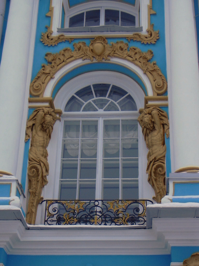 Pushkin (Russia), Catherine Palace